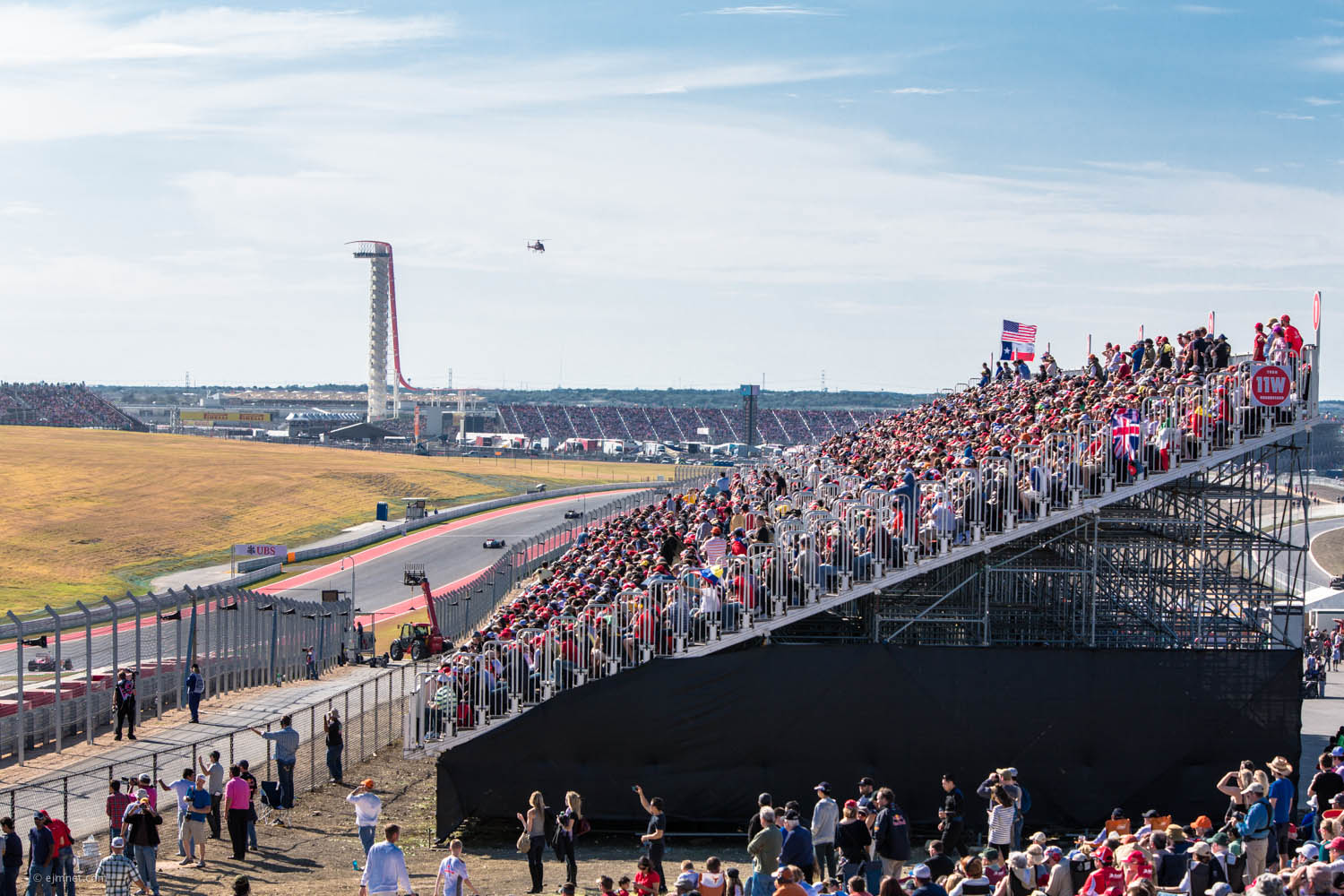 Crowds at Turn 11 watching the inaugural Formula 1 United States Grand Prix at the Circuit of the Americas in Austin, Texas.